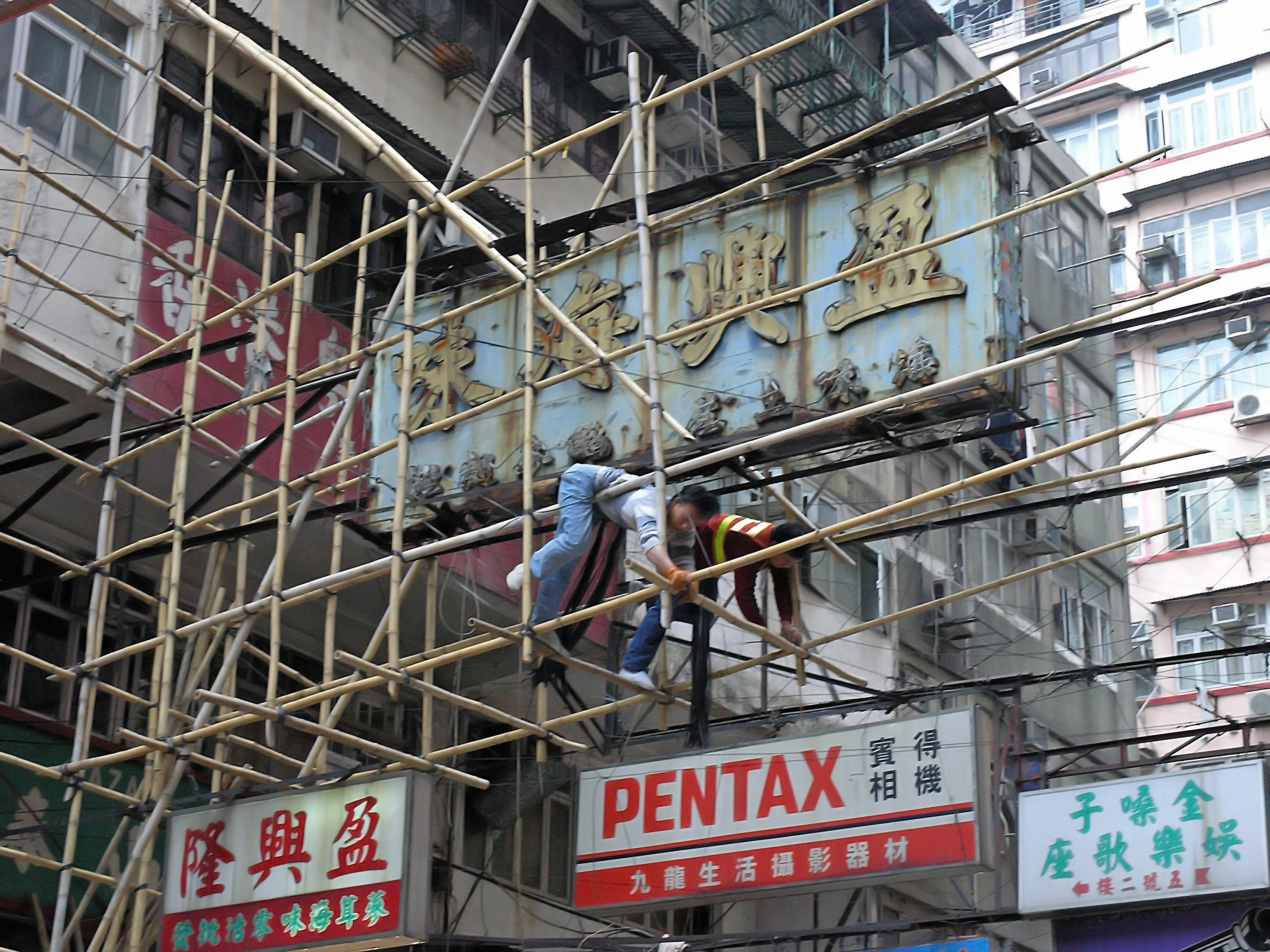 Workers constructing a bamboo scaffold cantilevered over a busy Hong Kong street.